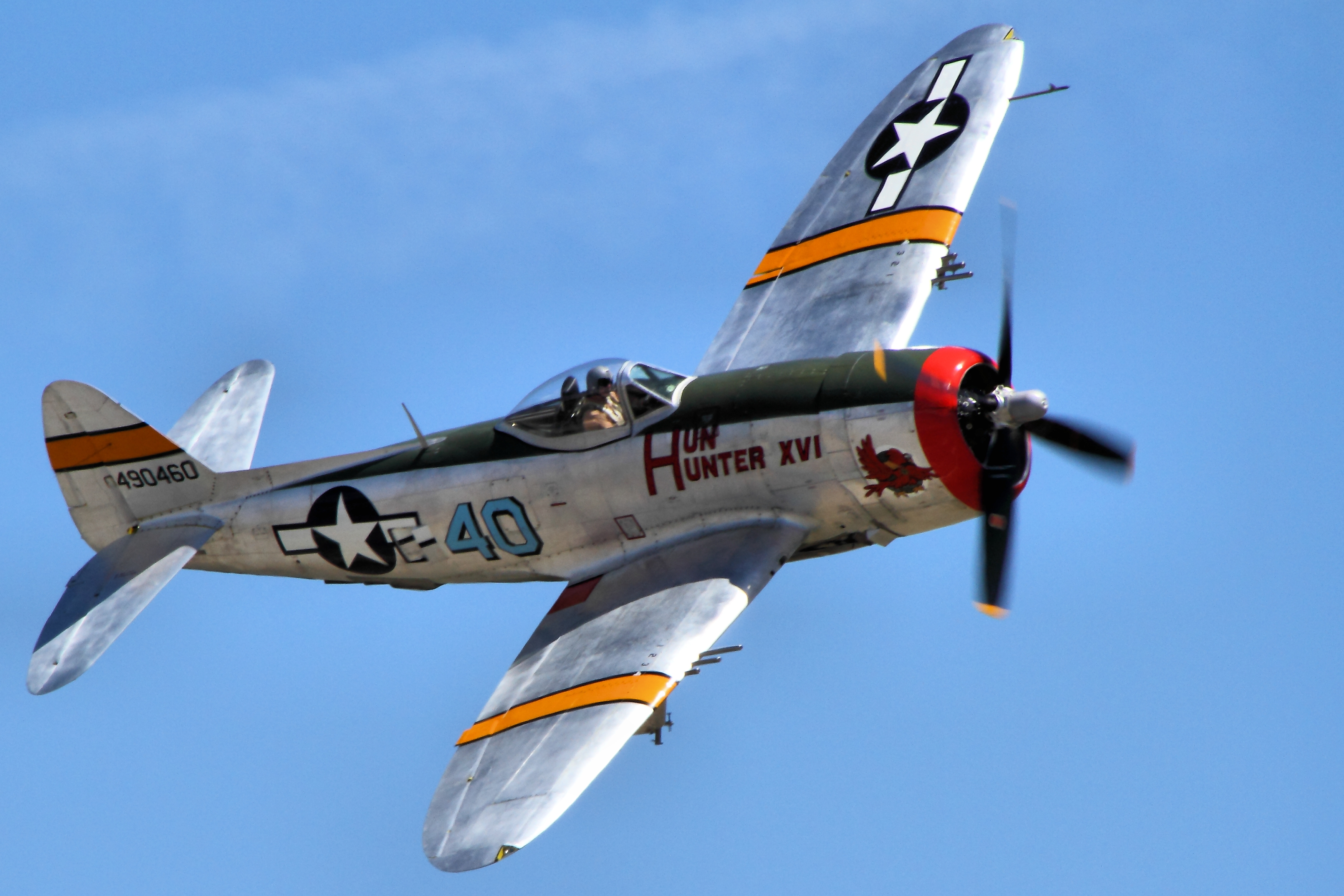 P47 Thunderbolt - Chino Airshow 2014